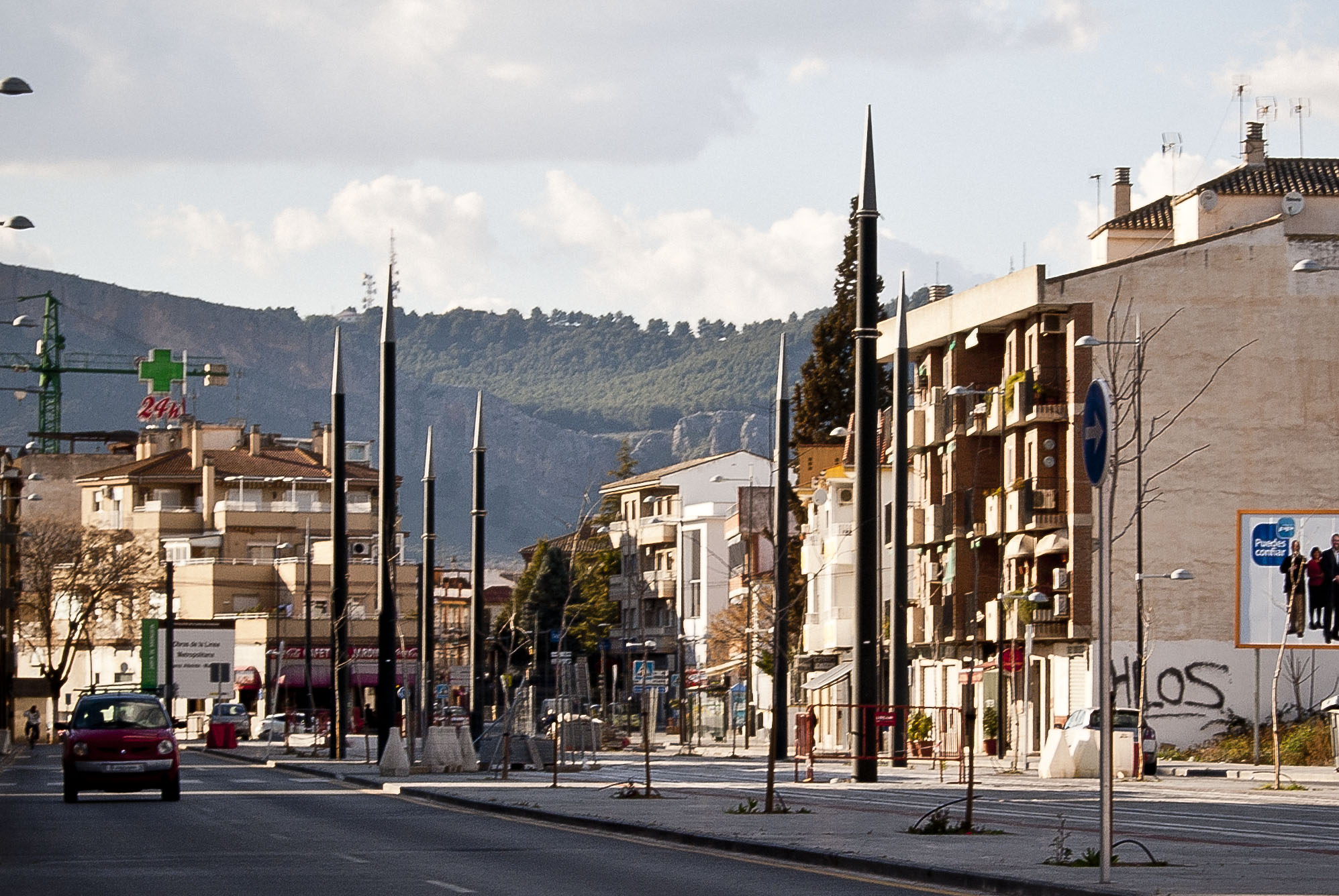 Start of the Metropolitano de Granada line in Jacobo Camarero avenue.